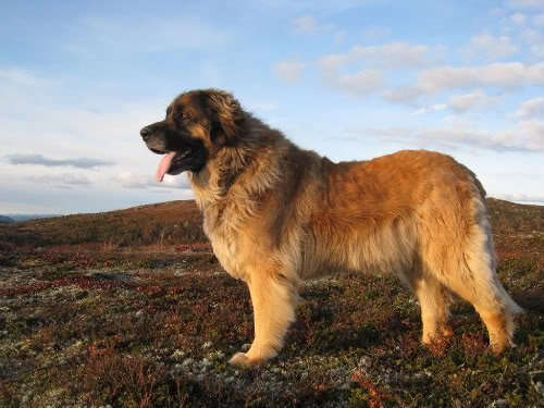 Leonberger male Norway